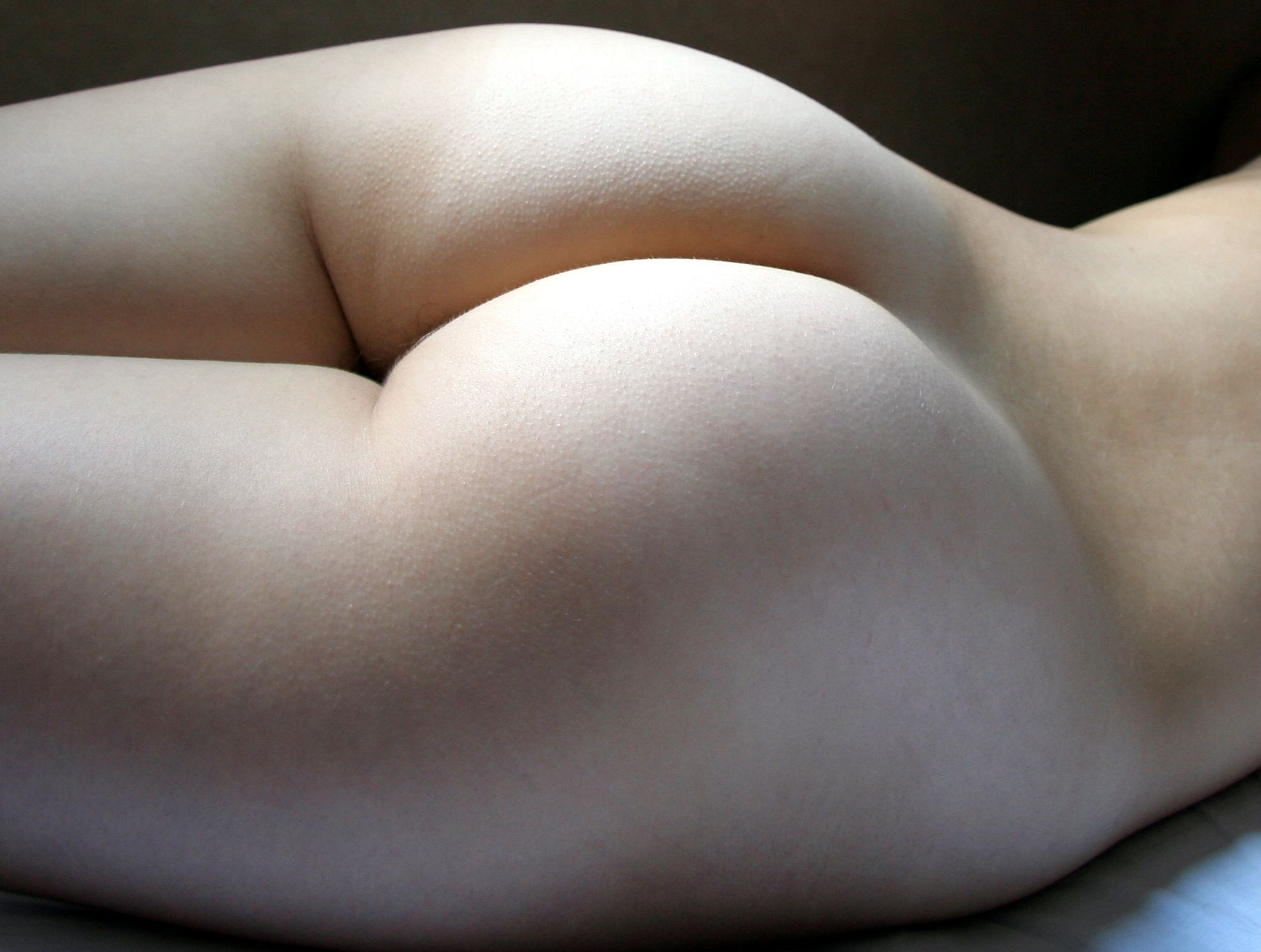 Female Buttocks